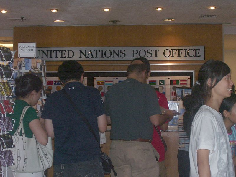 United Nations Post Office (visitors area), United Nations Headquarters, New York City. Photograph credit: Dragonbite.